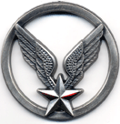 beret badge of light aircraft of the Army.